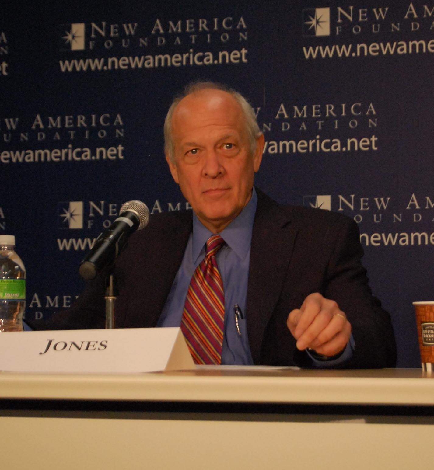 Alex Jones, Director, Joan Shorenstein Center on the Press, Politics and Public Policy